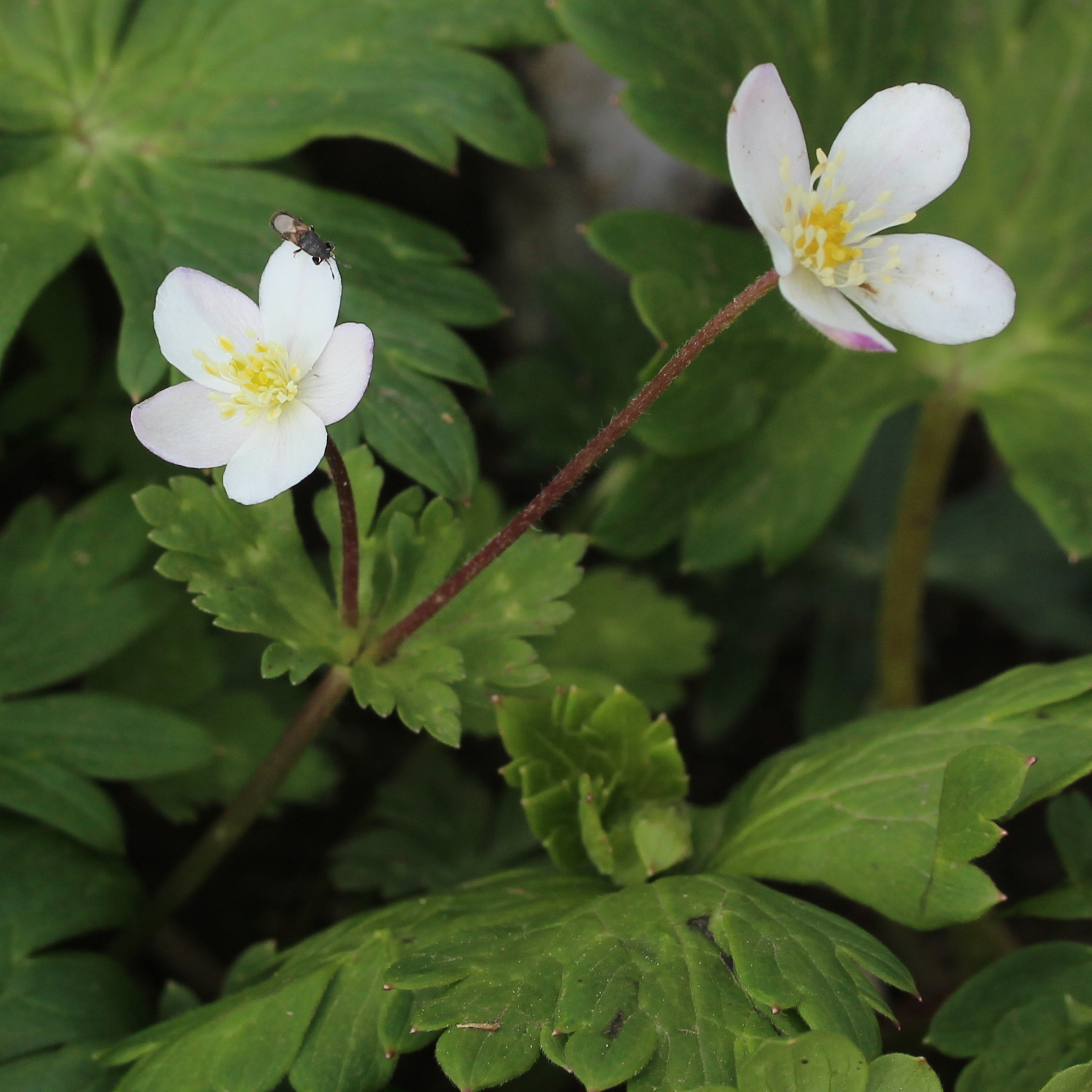 Anemone flaccida with two flowers in Mount Ryozen of Suzuka Mountains, Japan.